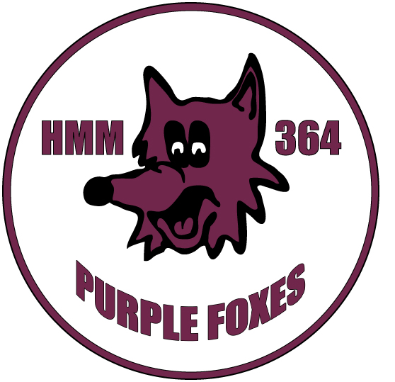 Squadron insignia for HMM-364